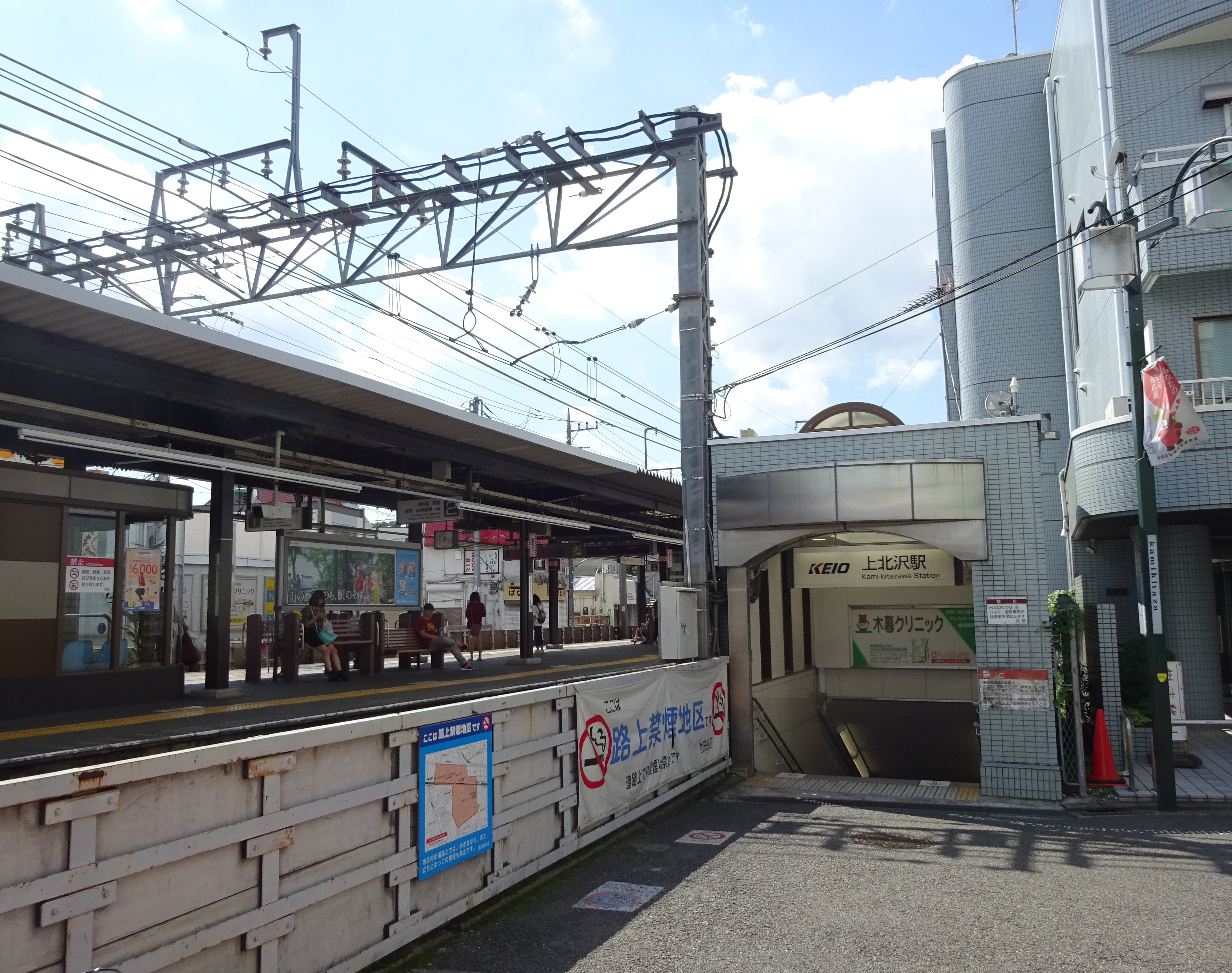 North entrance of Kami-kitazawa Station